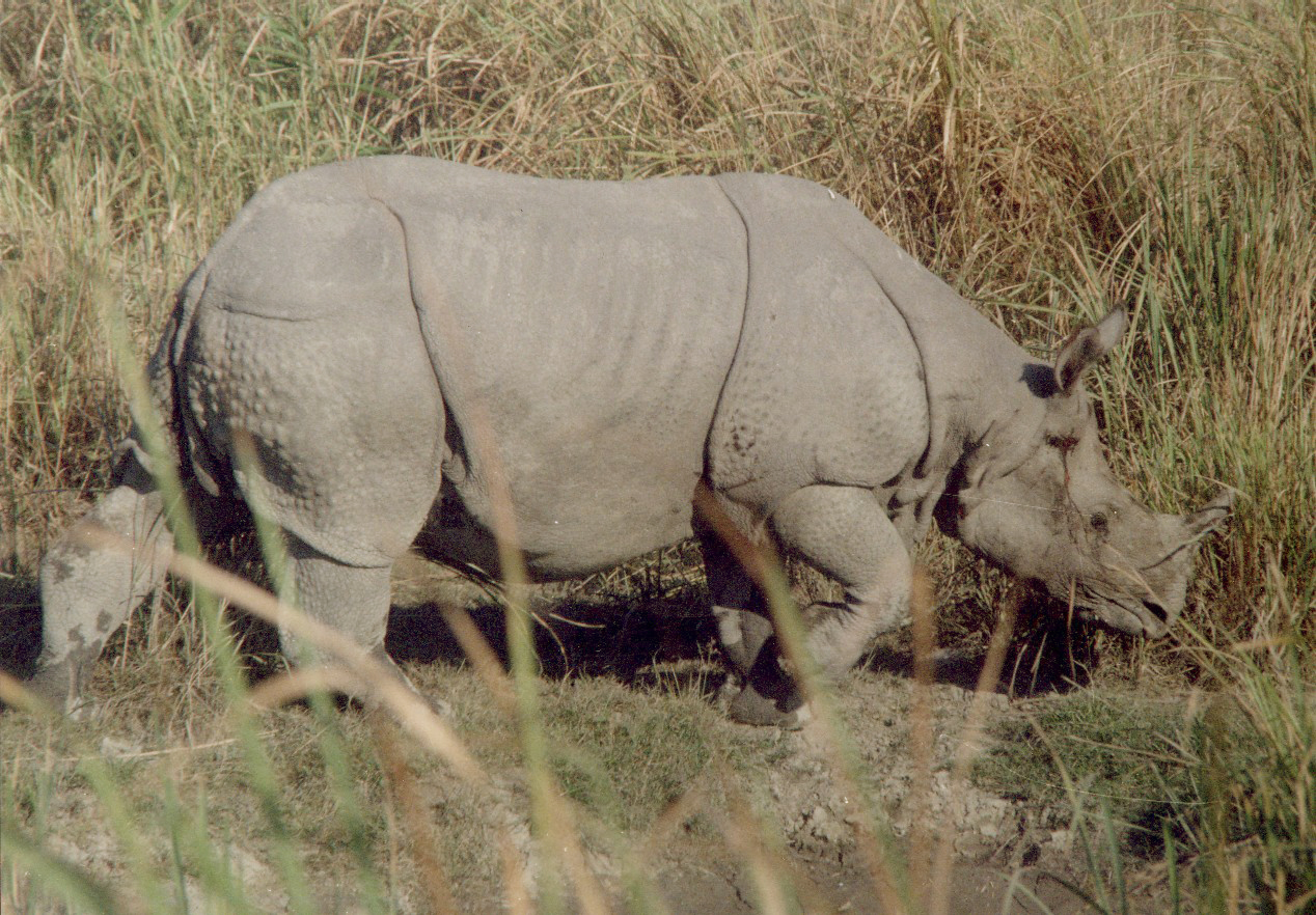 Side view photograph of a Great One Horned Indian Rhinoceros taken from atop an elephant in Kaziranga National Park that captures the dynamic stride of the beast. Photo taken using a Canon AV-1 SLR.